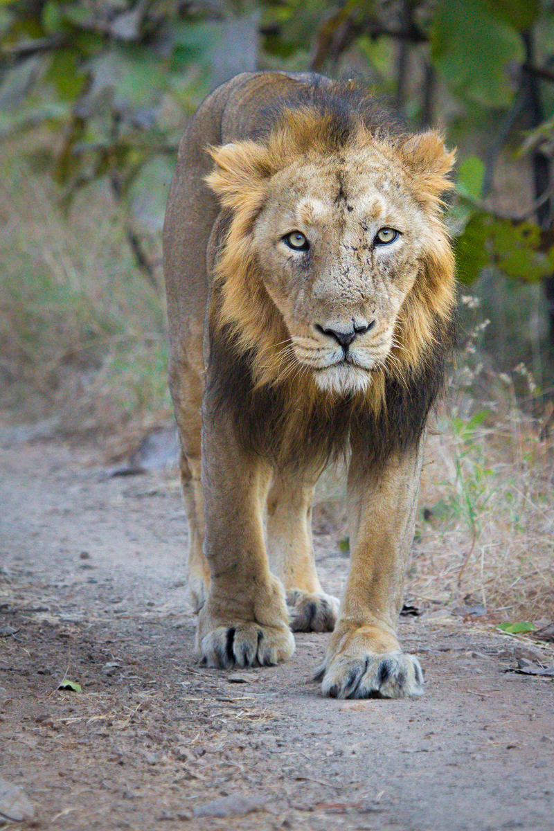 Male in Gir Forest